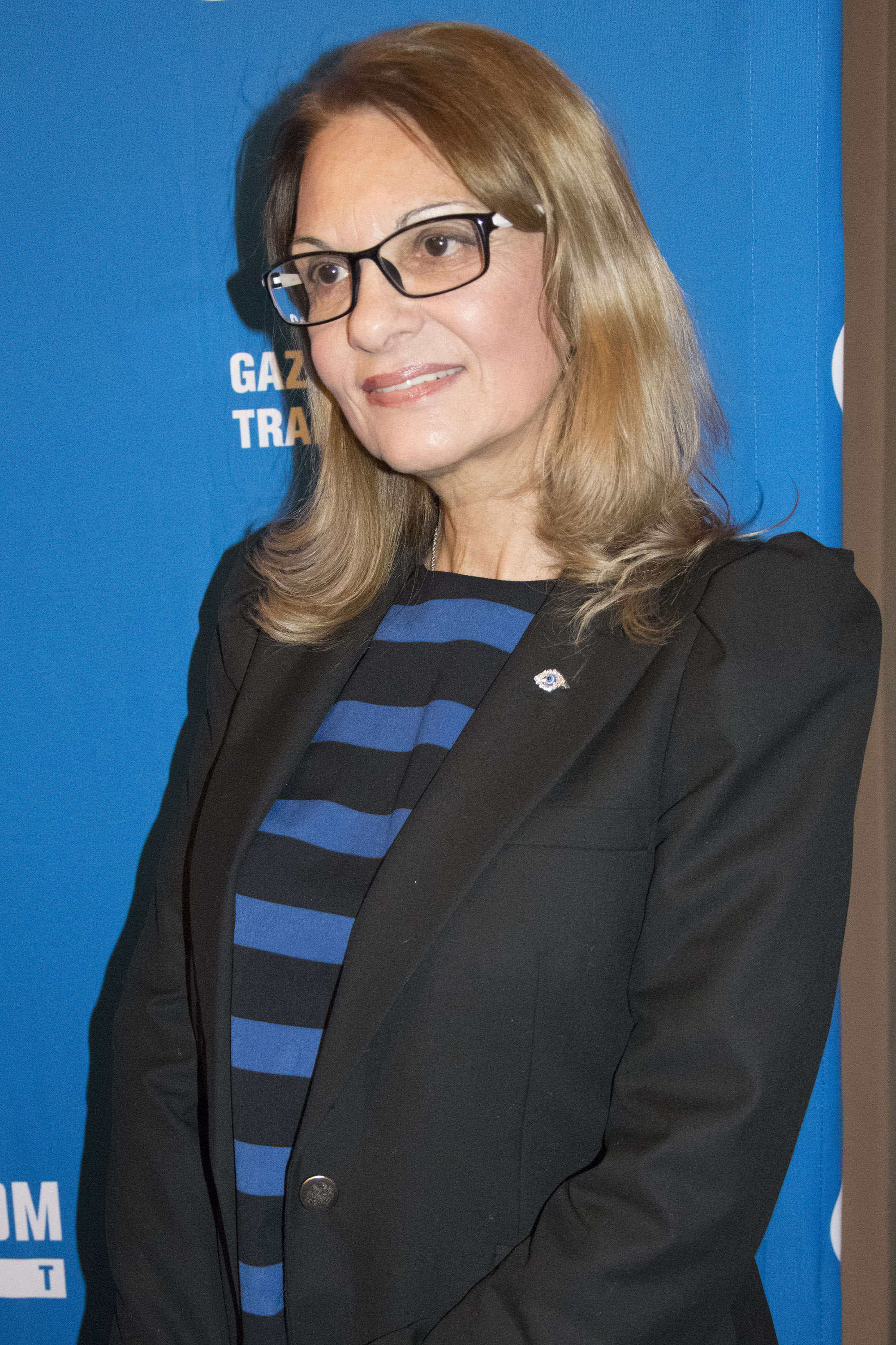 Svetlana Toma in Vienna, Austria. 10.12.2016